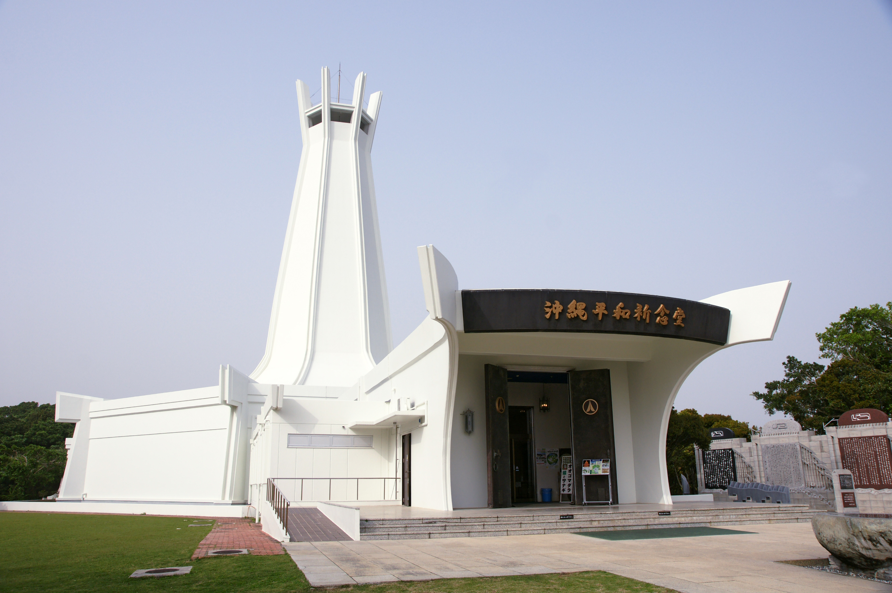 Okinawa Heiwakinen Memorial Hall in Itoman, Okinawa prefecture, Japan.